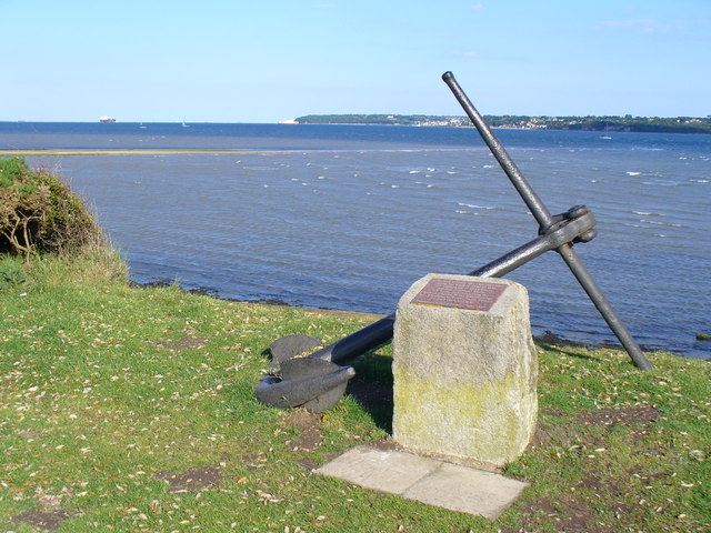 D-Day Memorial, Lepe Overlooking the waters of the Solent to the Isle of Wight. Through this channel sailed much of the D-Day armada on the night of 5/6 June 1944.